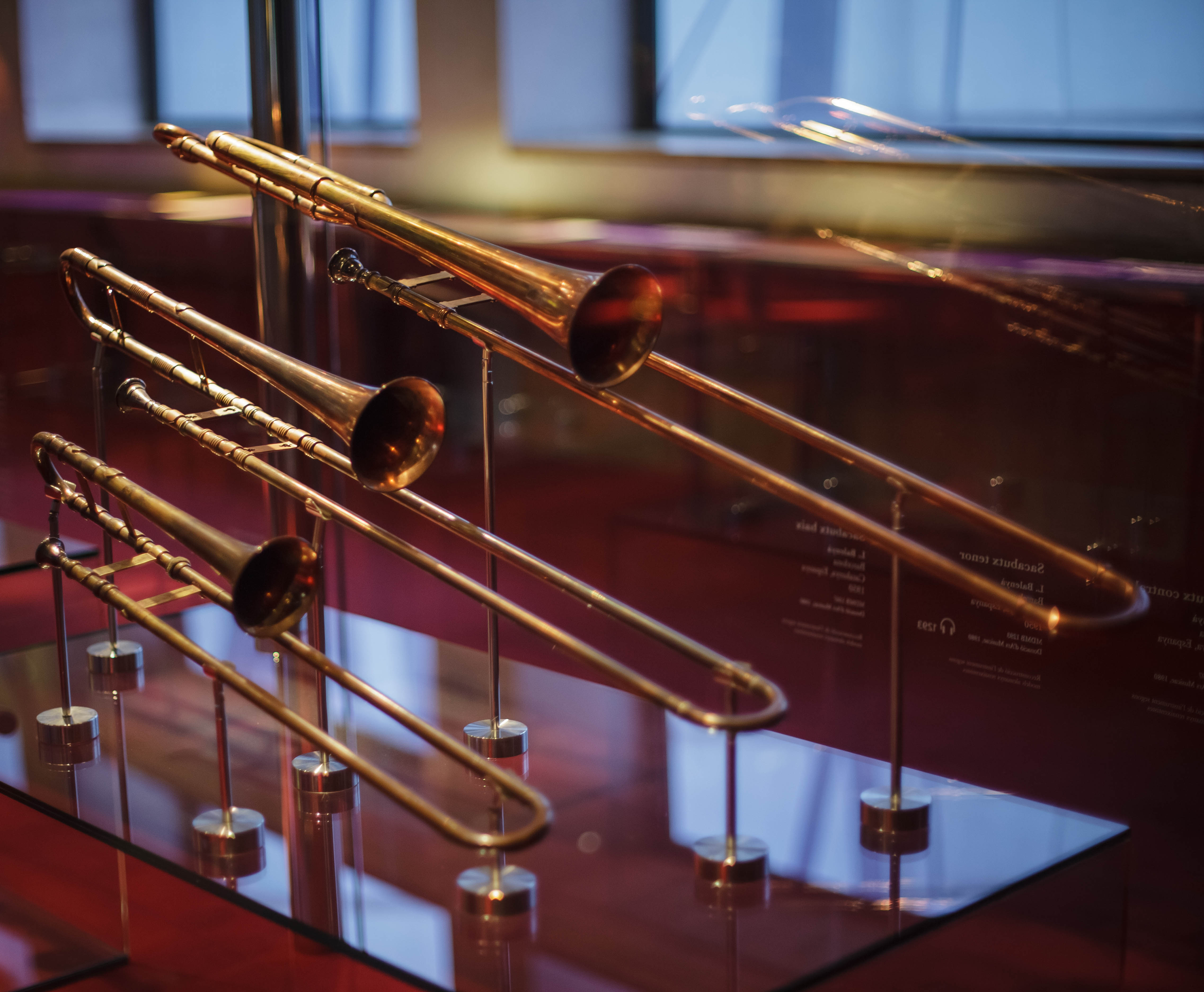 Group of sackbutts of Museu de la Música de Barcelona References MDMB 1267 : sacabutx baix (1950), Balenyà, L. (Autor). Museu de la Música, El web de la ciutat de Barcelona. MDMB 1293 : sacabutx tenor (1950), Balenyà, L. (Autor). Museu de la Música, El web de la ciutat de Barcelona. MDMB 1297 : sacabutx contralt (1950), Balenyà, L. (Autor). Museu de la Música, El web de la ciutat de Barcelona.